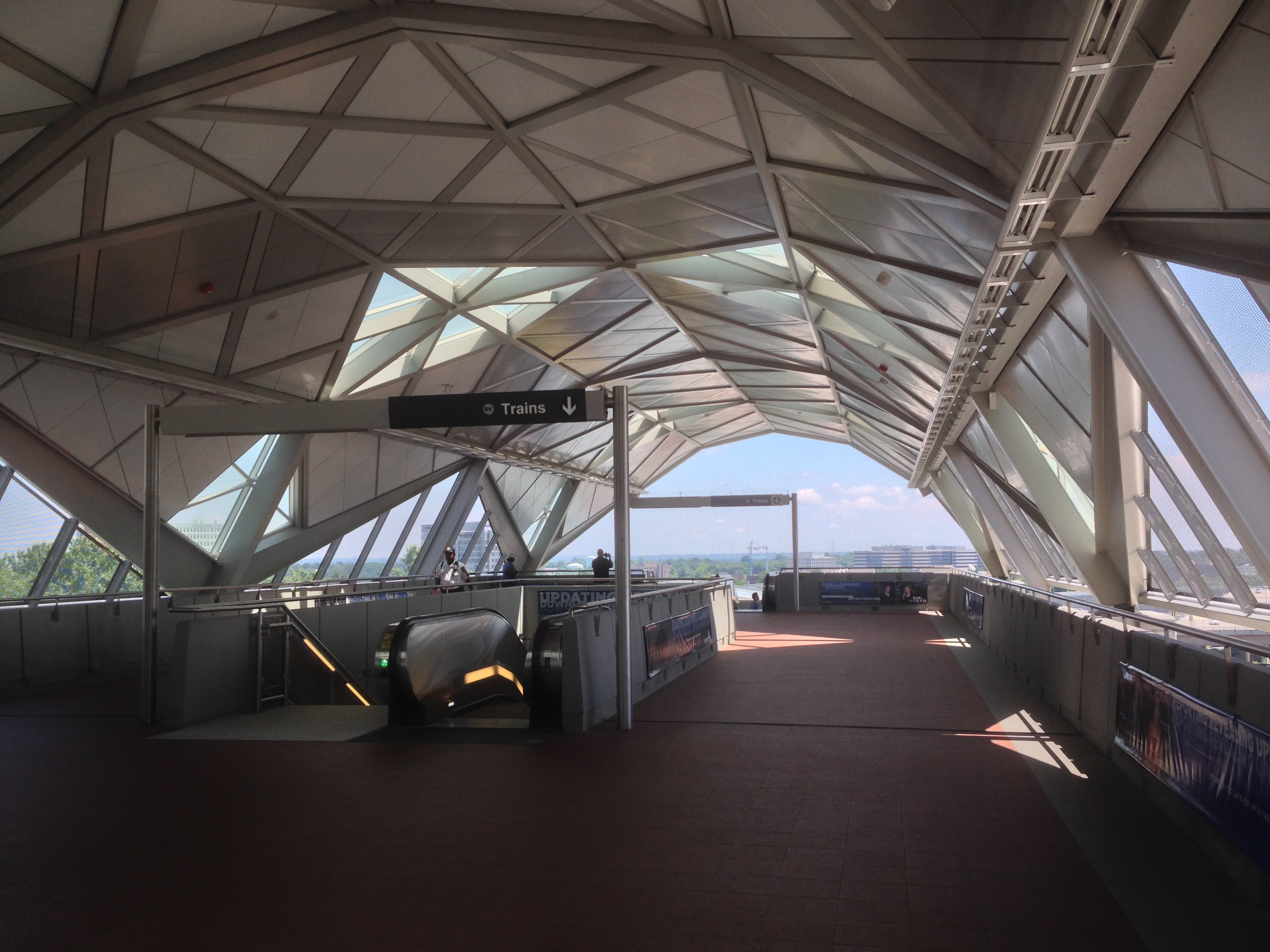 Mezzanine of the Tysons Corner WMATA station on its first day of operation